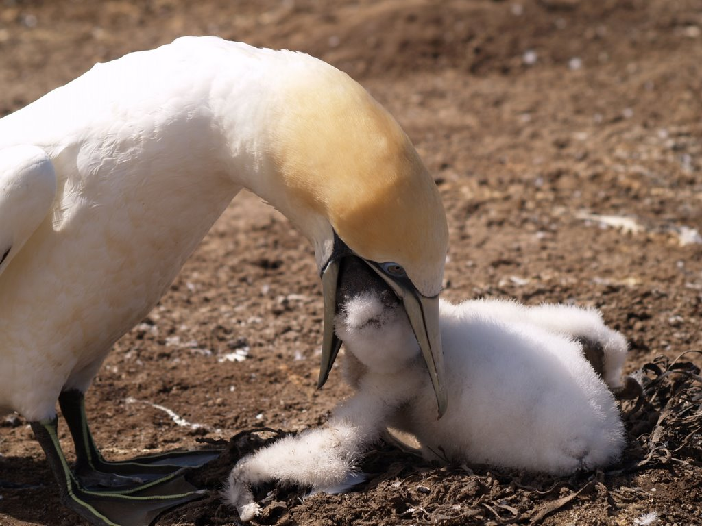 Gannets New Zealand